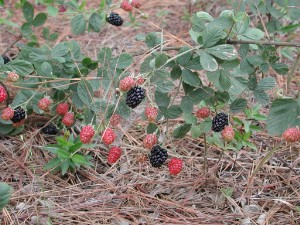 Ripening fruit of a Dewberry (Rubus) plant.